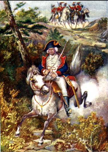 Israel Putnam - Project Gutenberg eText 17049 "Old Put" escaping from the British at Horseneck